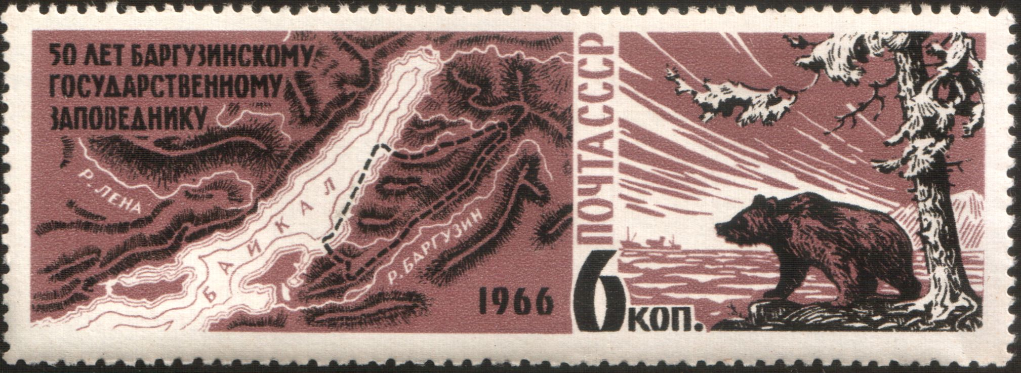 USSR stamp of 1966.06.25; 6 kopecks. 50th anniversary of Barguzin Nature Reserve. Map of Lake Baikal region and Nature Reserve, brown bear on lake shore.